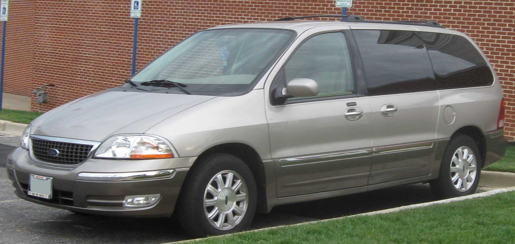 2001-2003 Ford Windstar photographed in College Park, Maryland, USA.